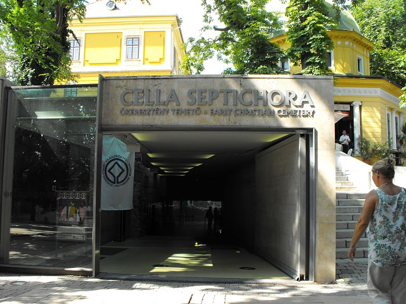 Entrance of Cella Septichora, Pécs, Hungary